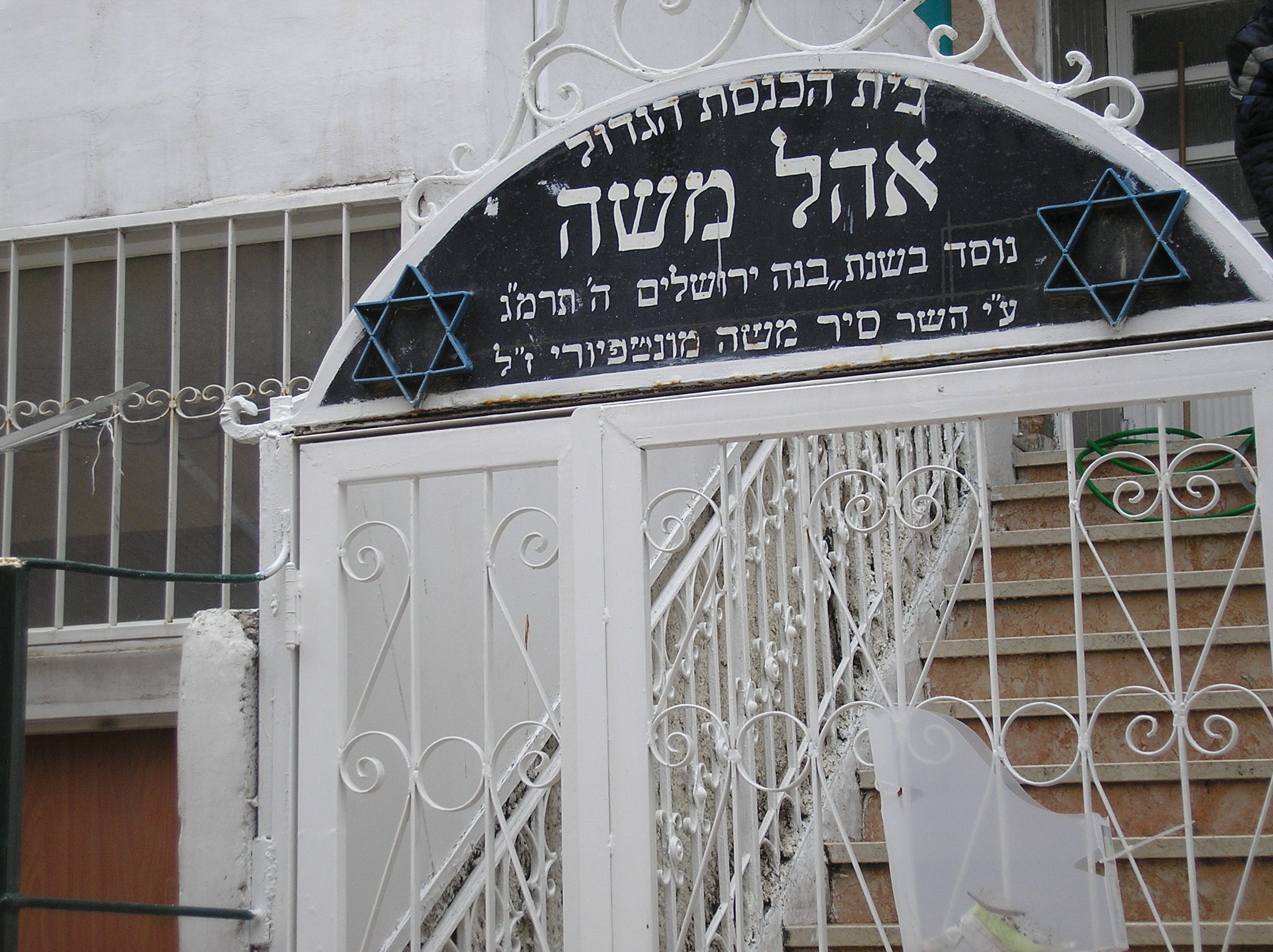 in Ohel Moshe in Nahlaot